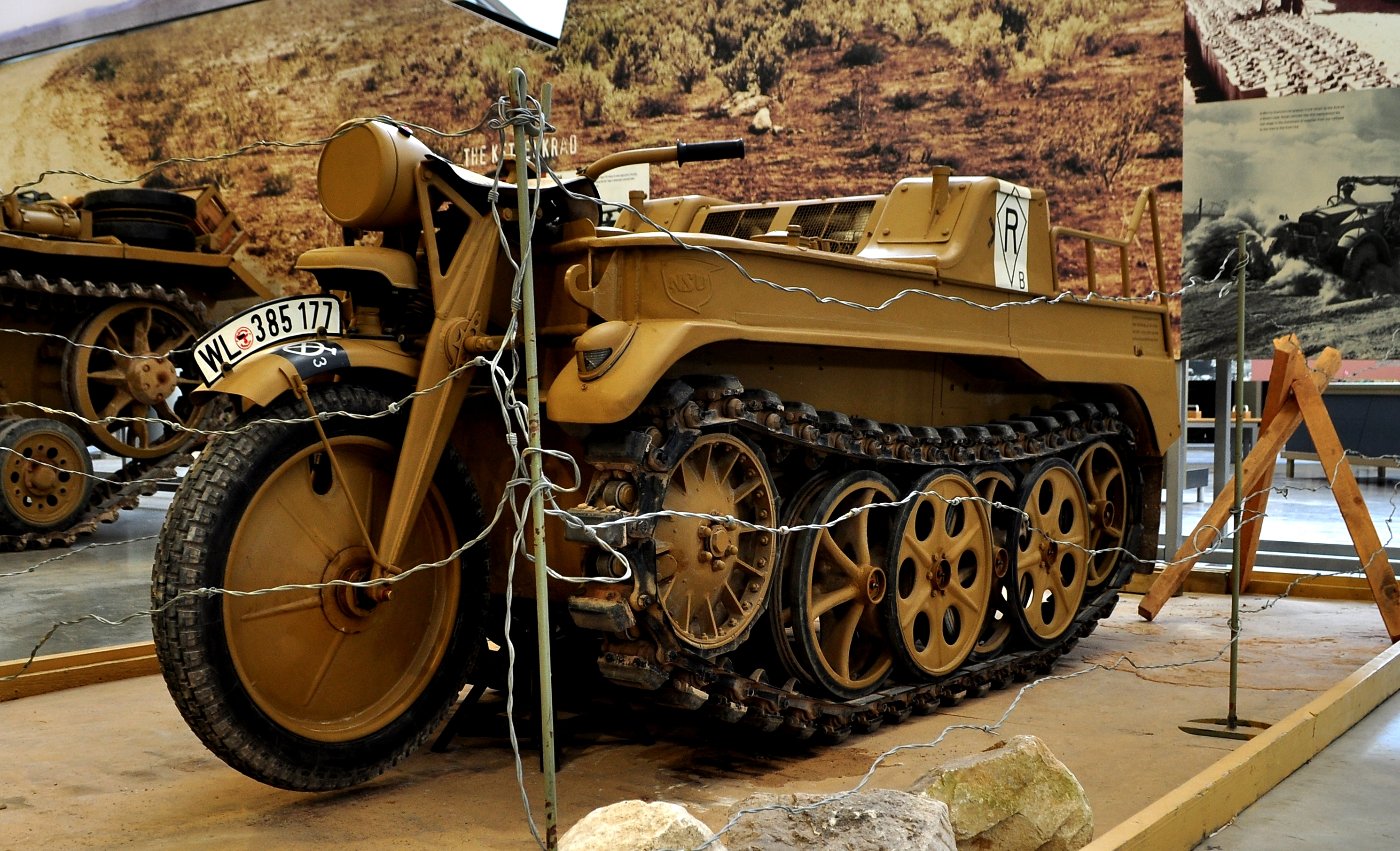 SdKfz 2 Kettenkrad at the Tank Museum, Bovington.